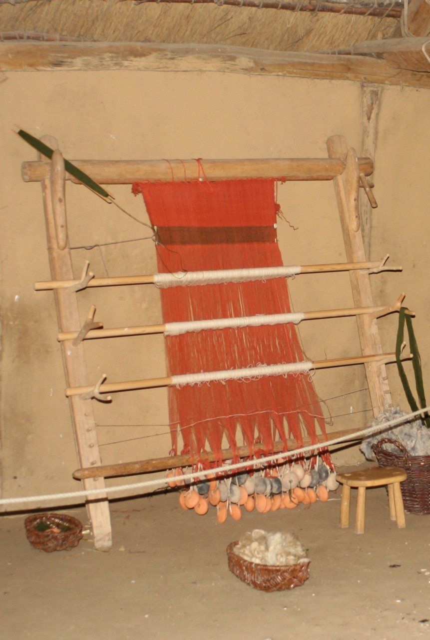 Reconstructed wrap weighted loom in house #2 at Wikinger-Museum Haithabu.